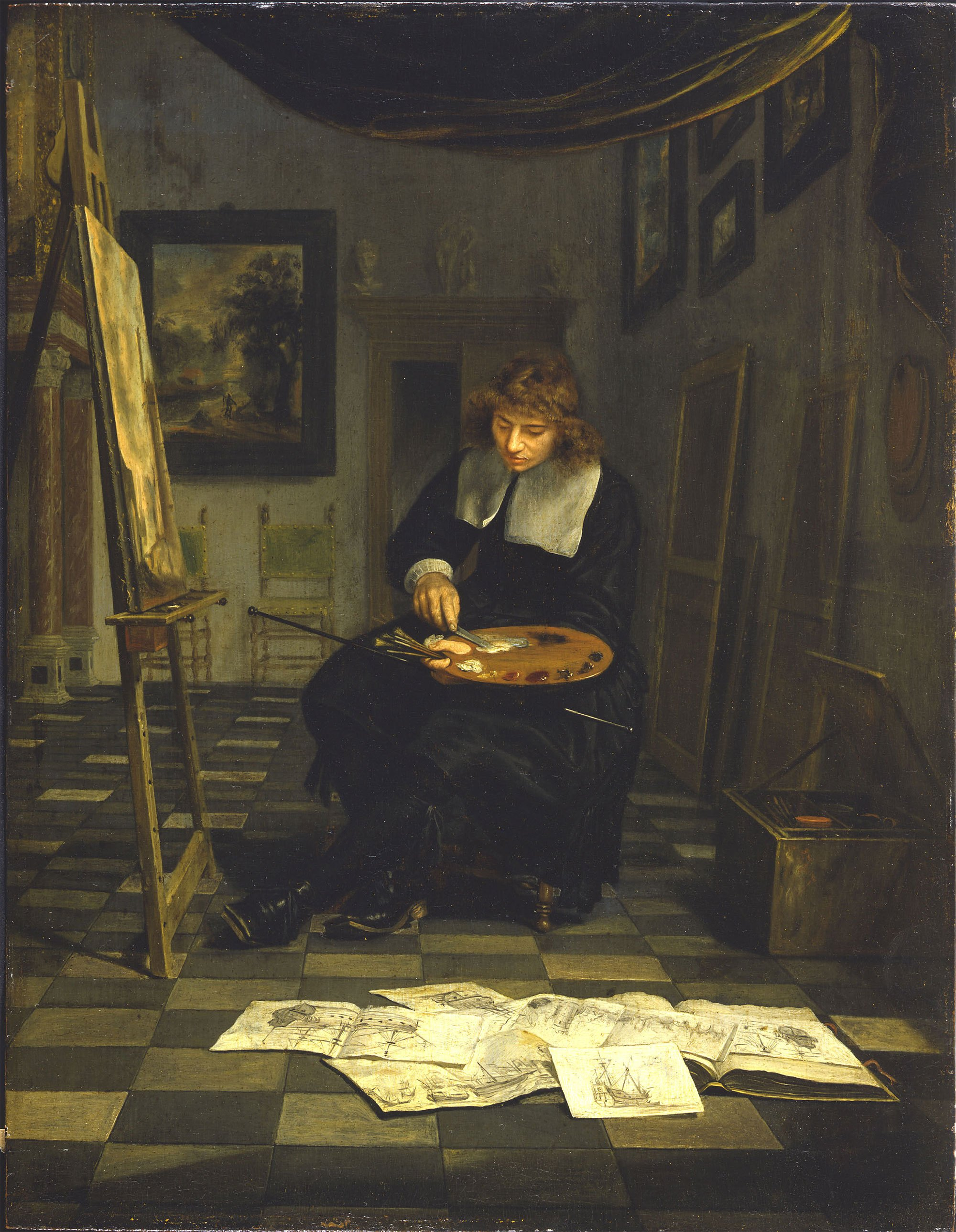 Portrait of an Artist in His Studio (traditionally identified as Willem van de Velde II) by Michiel van Musscher, oil on panel, 47.5 x 37 cm.